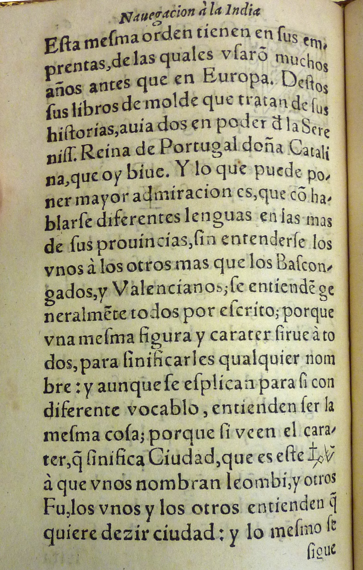 The Discurso de la navegación que los portugueses hazen a los reinos y provincias del oriente, y de la noticia que se tiene del reino de China by Bernardino de Escalante (1577). This is one of the very few surviving copies of this book, from Lilly Library, Bloomington, Indiana. Folio 62 (verso)